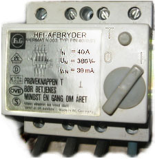 Danish residual current device of type HFI with three phases and neutral (HFI: højfølsøm fejlstrømsafbryder - highly senstitive residual current device. Make: Felten & Guillaume